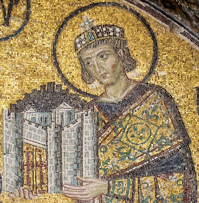 Emperor Constantine I, presenting a model of the Constantinople basilica Hagia Sophia to the Blessed Virgin Mary. Detail of the southwestern entrance mosaic in Hagia Sophia (Istanbul, Turkey).